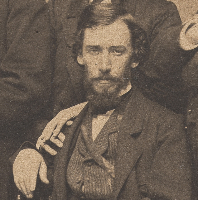 Portrait of Sanford Robinson Gifford. Detail from group portrait of George Fuller, William Page, Henry Kirke Brown, Joseph A. Ames, Asher B. Durand, John Quincy Adams Ward and Sanford Robinson Gifford (seated). Creator/Photographer: Unidentified photographer Medium: Black and white photographic print Date: 1865 Persistent URL: [1] Repository: Archives of American Art Native nameArchives of American ArtLocationWashington, D.C.Coordinates38° 53′ 52″ N, 77° 01′ 22″ W Established1954Website control VIAF: 151134814 ISNI: 0000 0001 2185 0758 LCCN: n79065944 NLA: 35007823 GND: 1085306631 WorldCat Accession number: aaa_butlhowa_4961